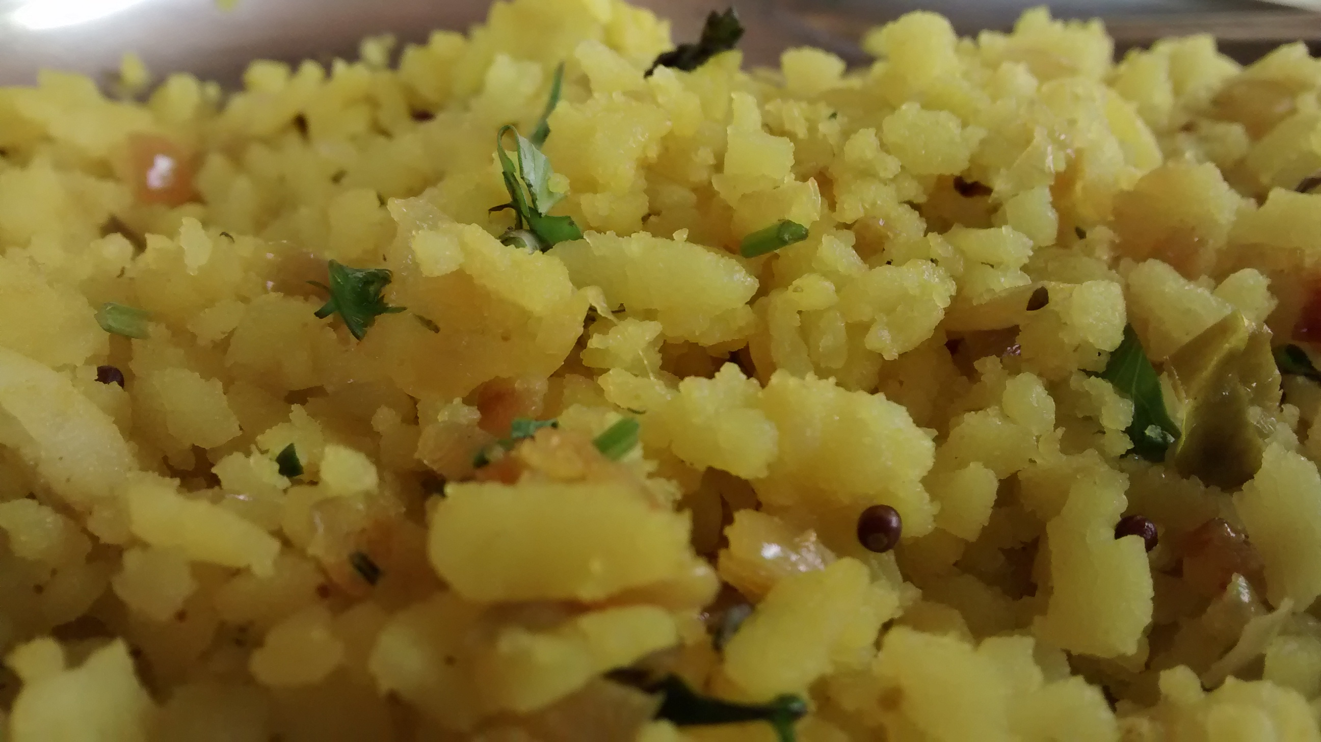 Morning break fast, Kande pohe at tapola in riverview resort